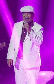 12 Aug 2012 / Hanoi, Vietnam.